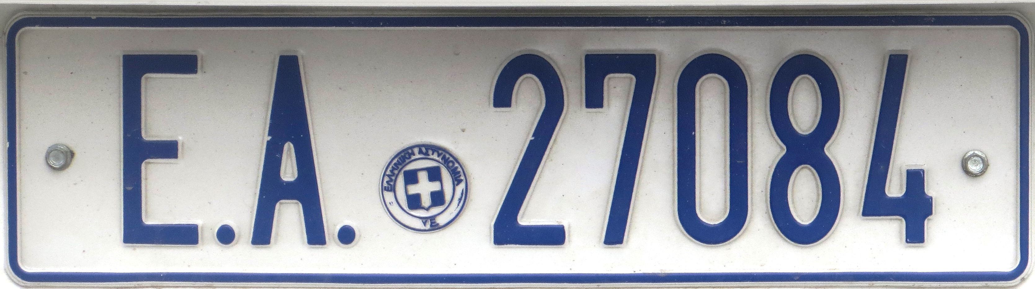 Police plate of Greece